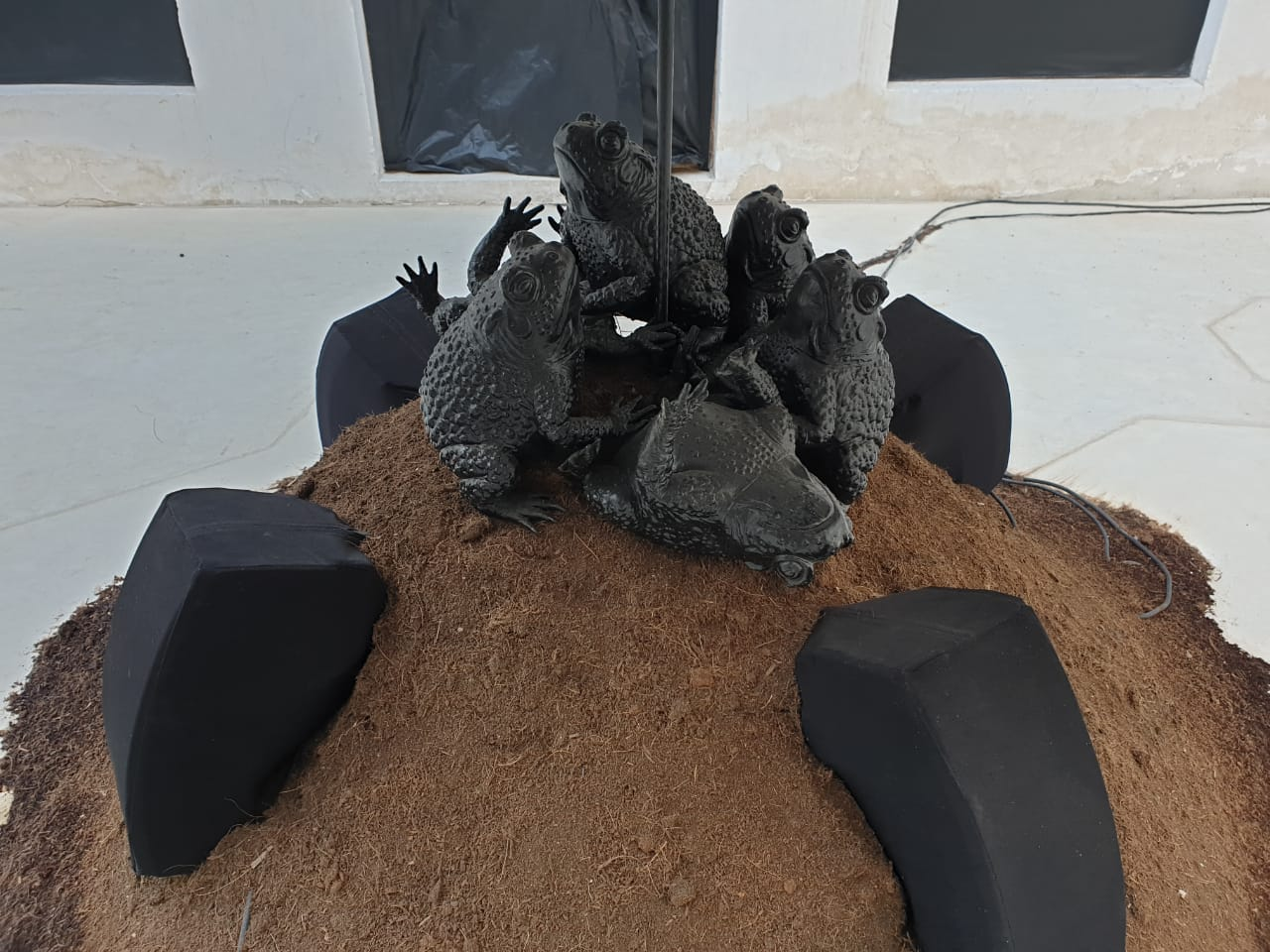 Sharjah Biennale 2019